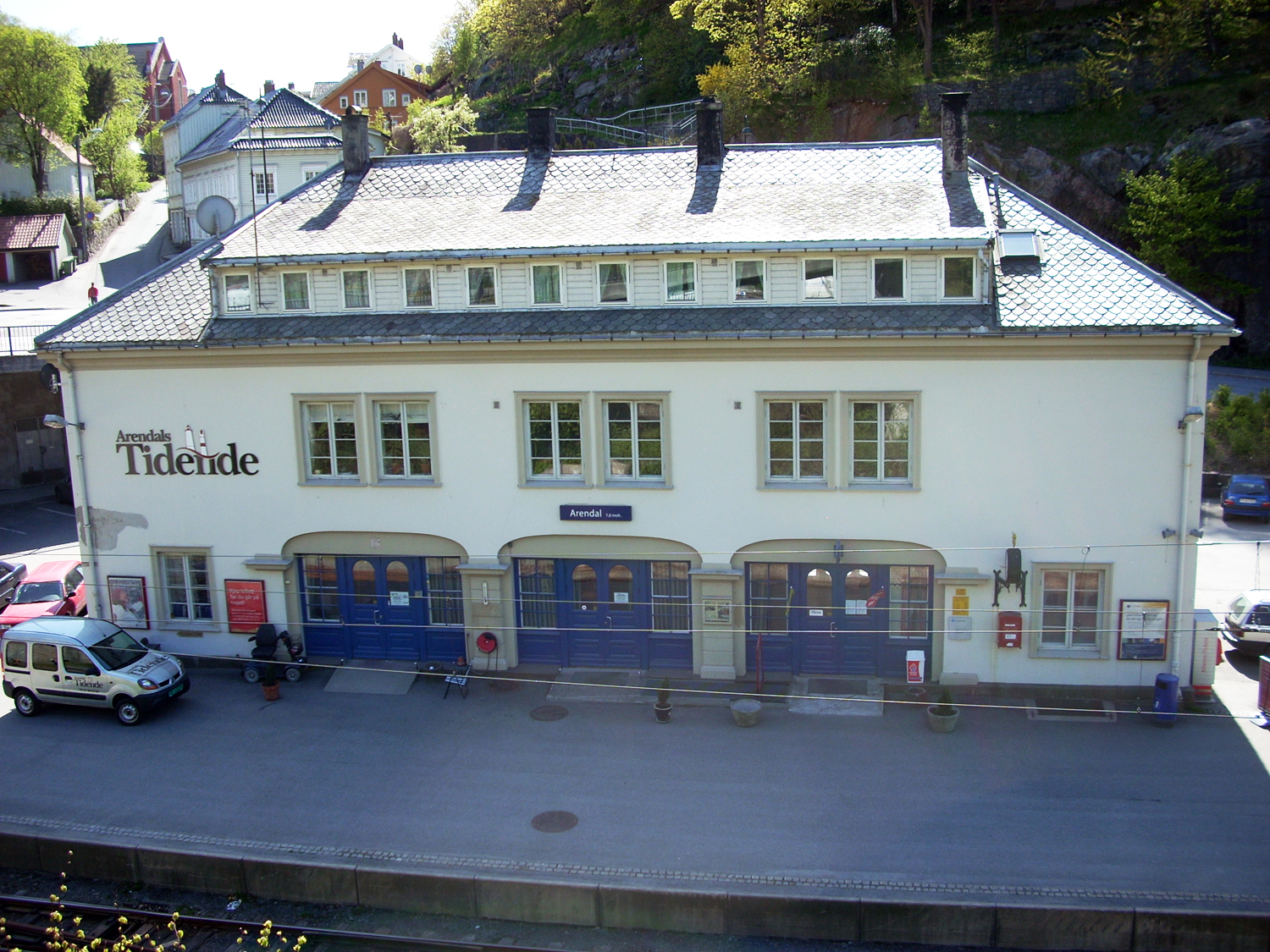 Arendal train station, Arendal, Norway